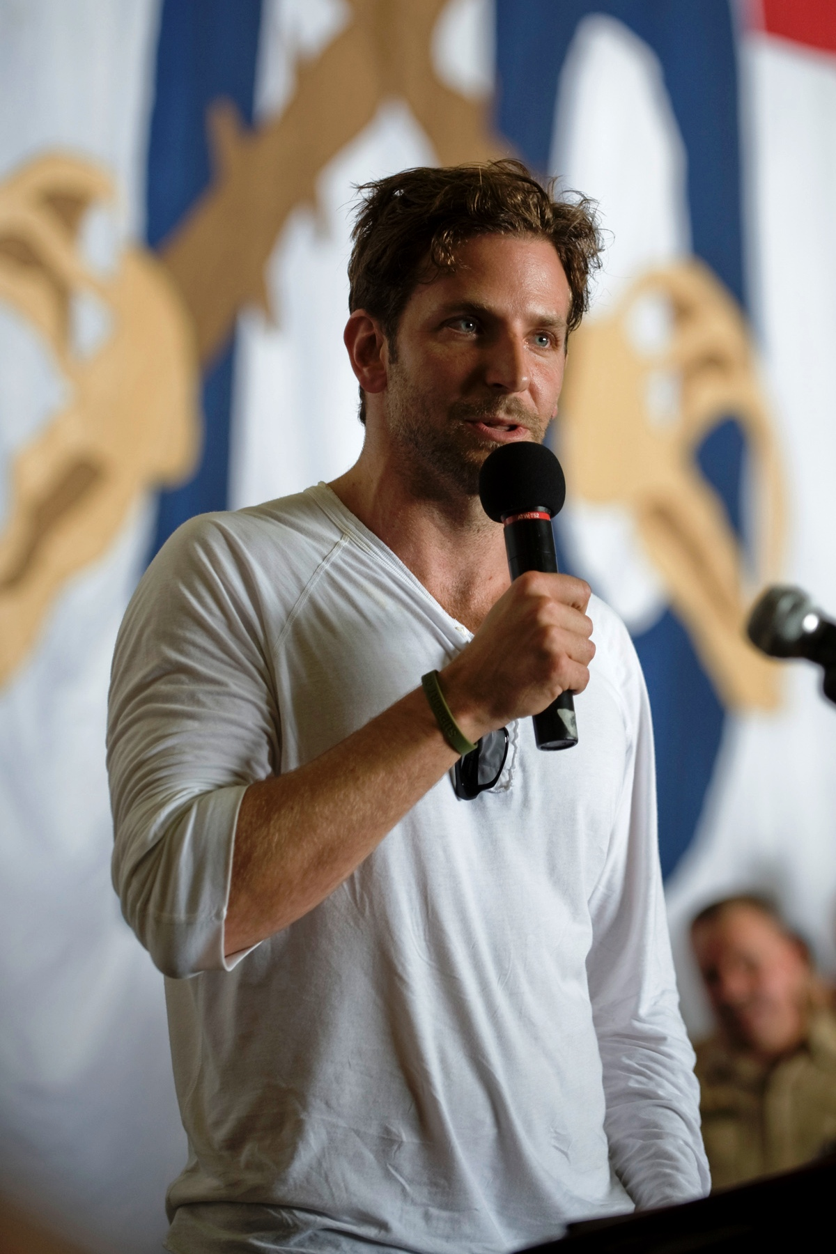 Actor Bradley Cooper addresses the crew aboard aircraft carrier USS Ronald Reagan (CVN 76), under way in the Gulf of Oman, July 13, 2009, during a United Service Organizations (USO) tour.